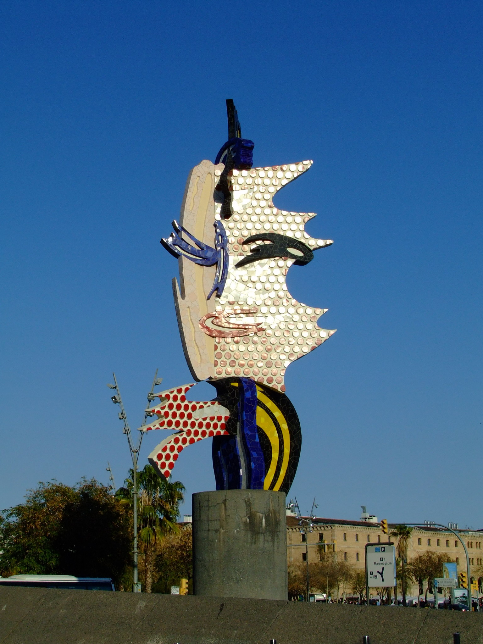 Barcelona Head Roy Lichtenstein